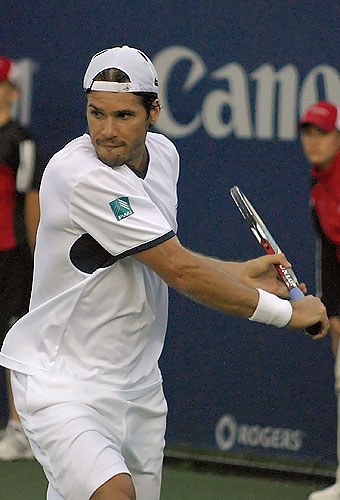 Tommy Haas at the 2008 Rogers Cup